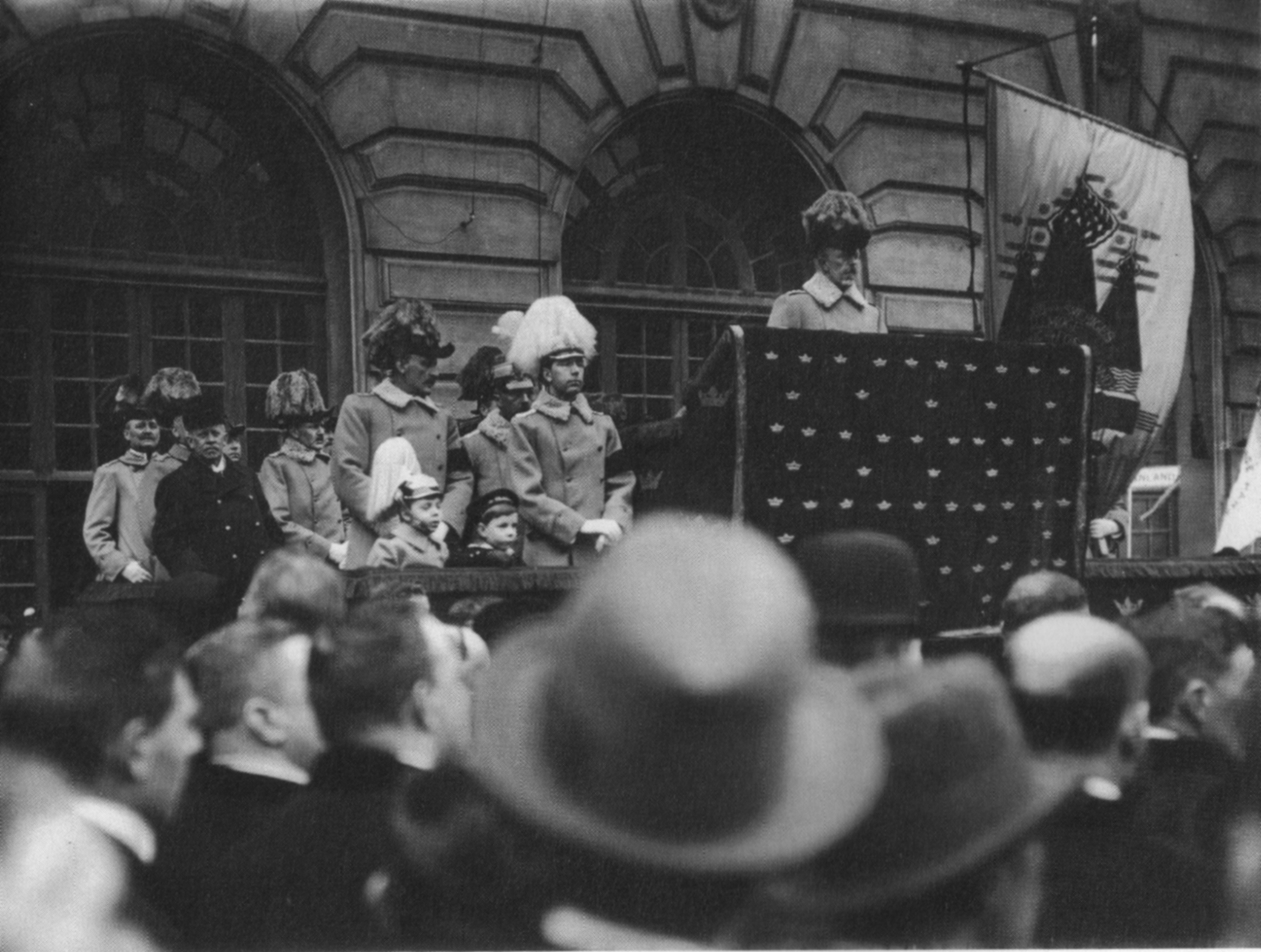 King Gustav V speaks out against the military policy of his own government at the Royal Palace in Stockholm. Next to the podium stands his brother, prince Carl, his son crown prince Gustaf Adolf and grand children prince Gustaf Adolf and prince Sigvard.